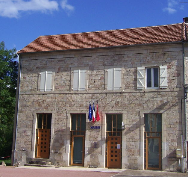 Municipal building of the town Thémines - Lot - France